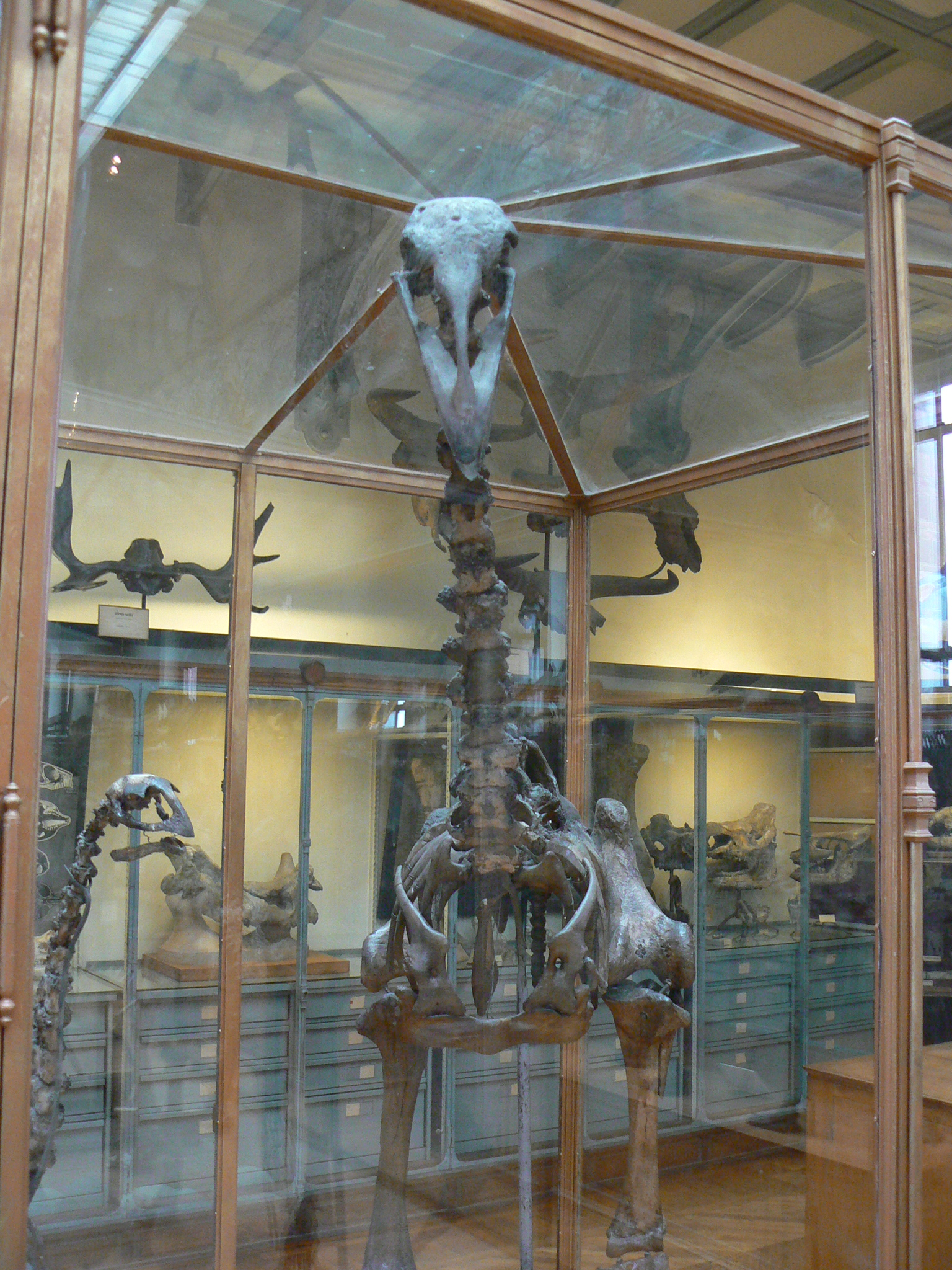 Aepyornis (elephant bird)